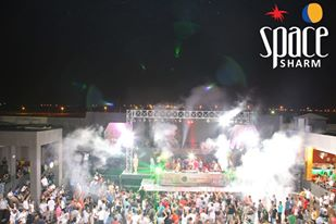 It is a photo taken at the Future sound of Egypt event at Space Sharm